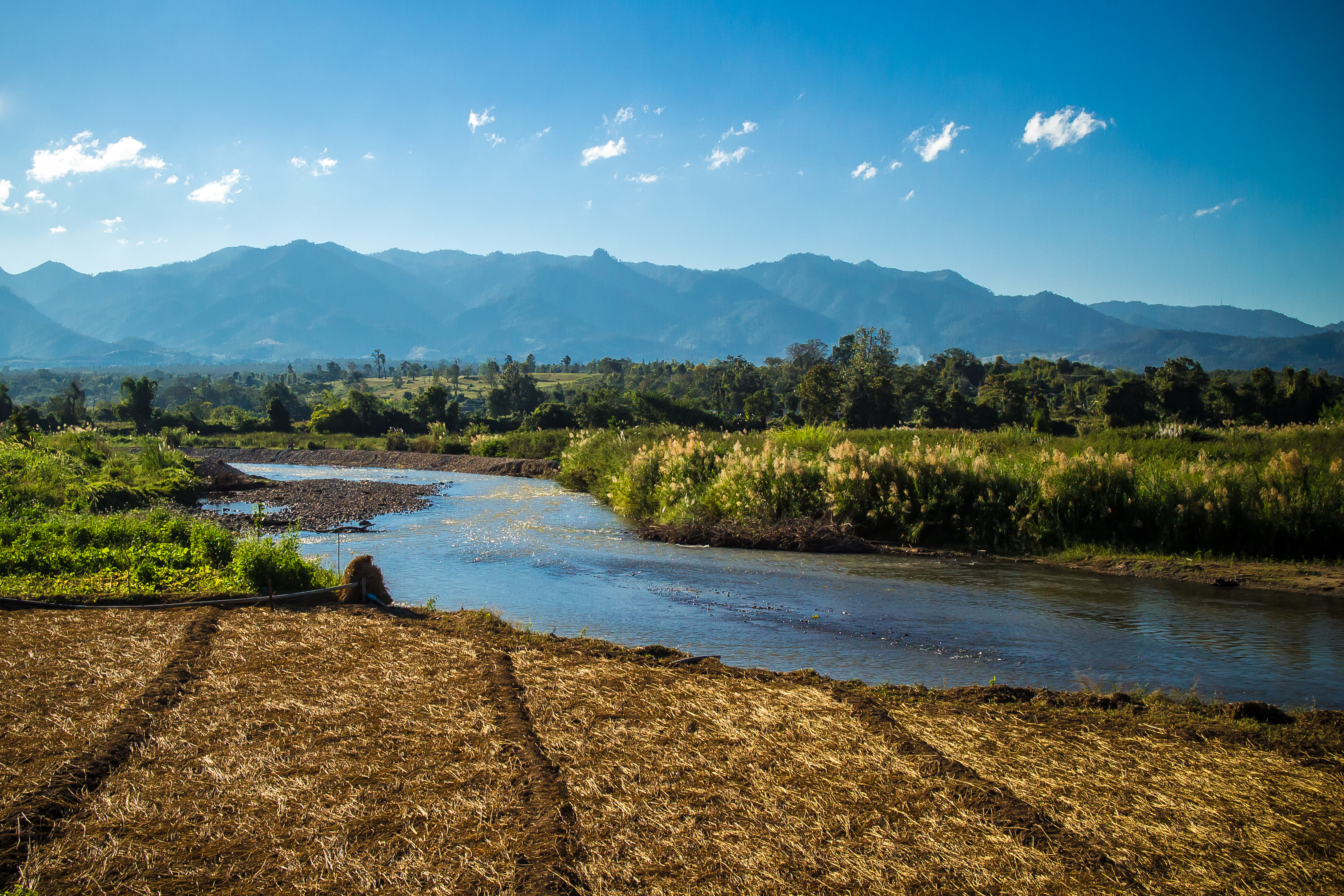 Pai river north of Pai, Mae Hong Son, Thailand